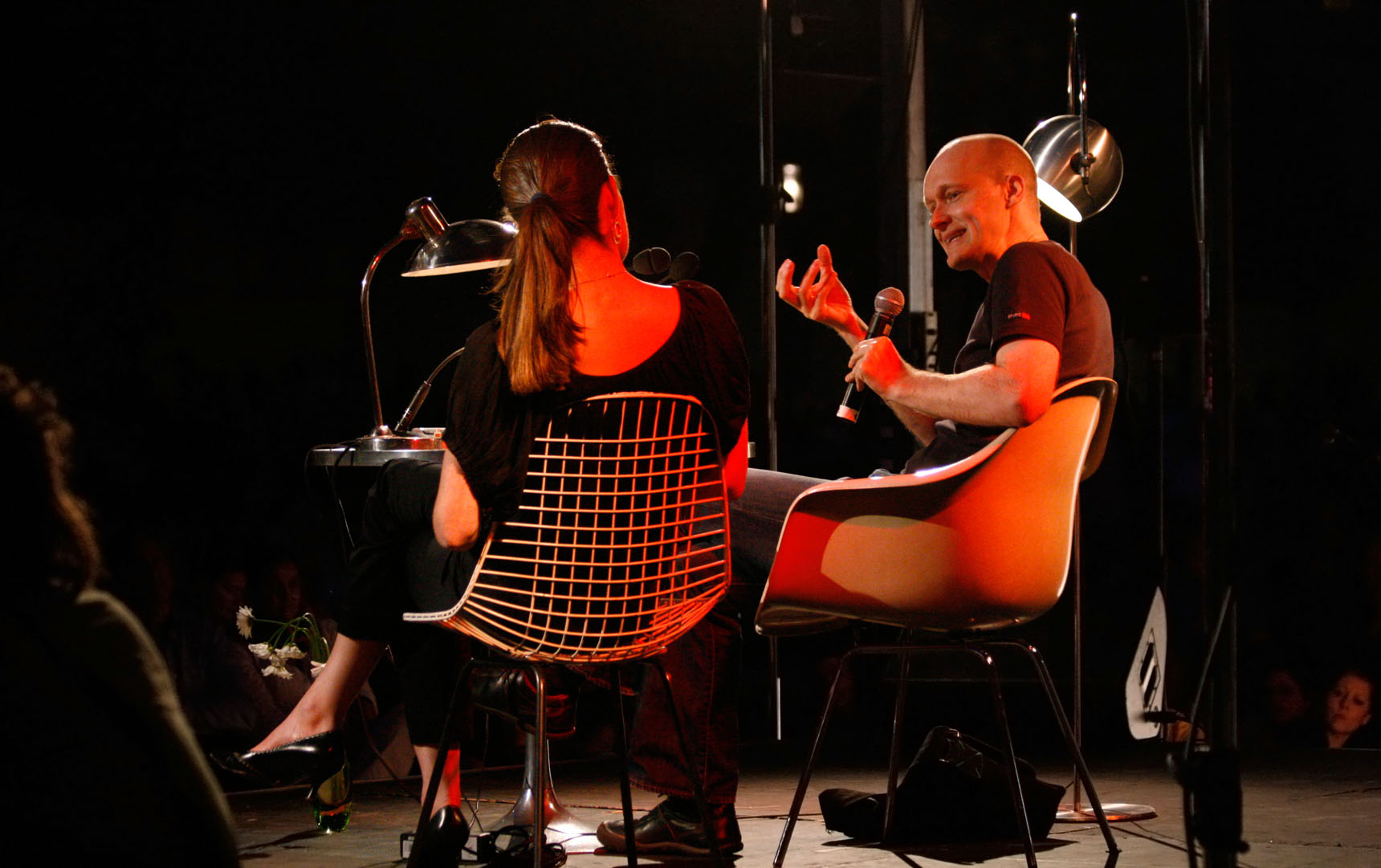 Writer Arno Geiger talking with Felicitas von Lovenberg about his book Alles über Sally; literary festival O-Töne at the Museumsquartier in Vienna